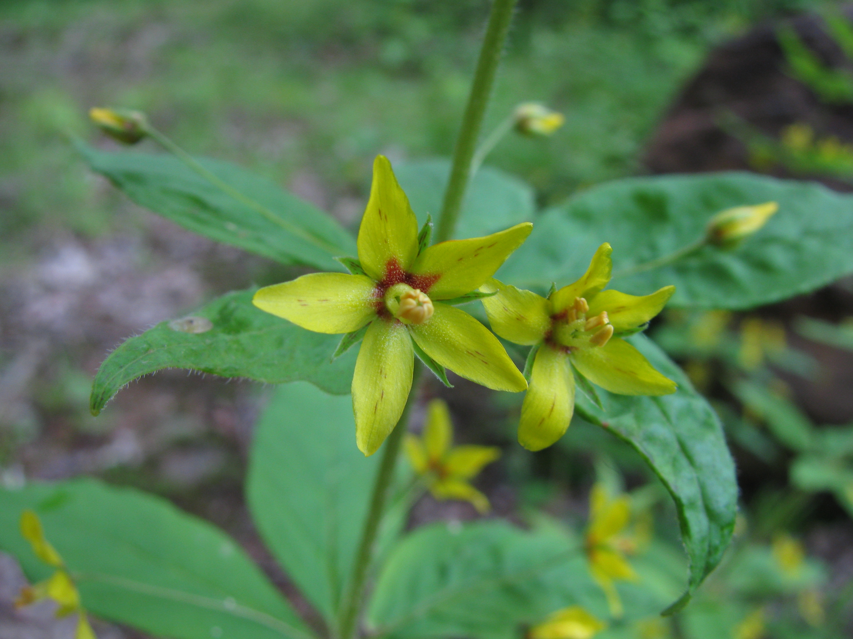 Close-up photo of a Lysimachia quadrifolia blossom.